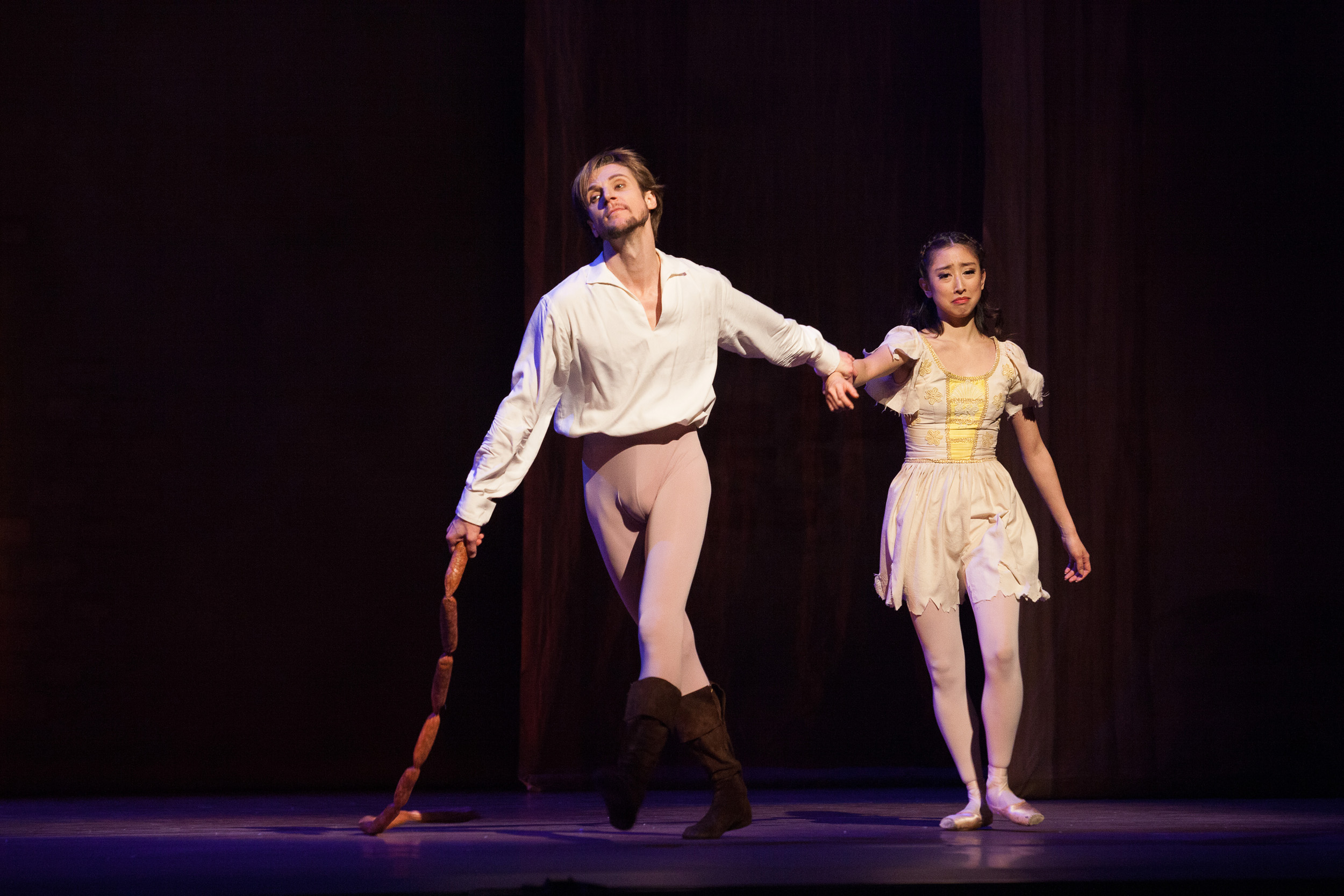 Maksim Woitiul (Petruchio) & Mai Kageyama (Katherina), "The Taming of the Shrew" by John Cranko, Polish National Ballet